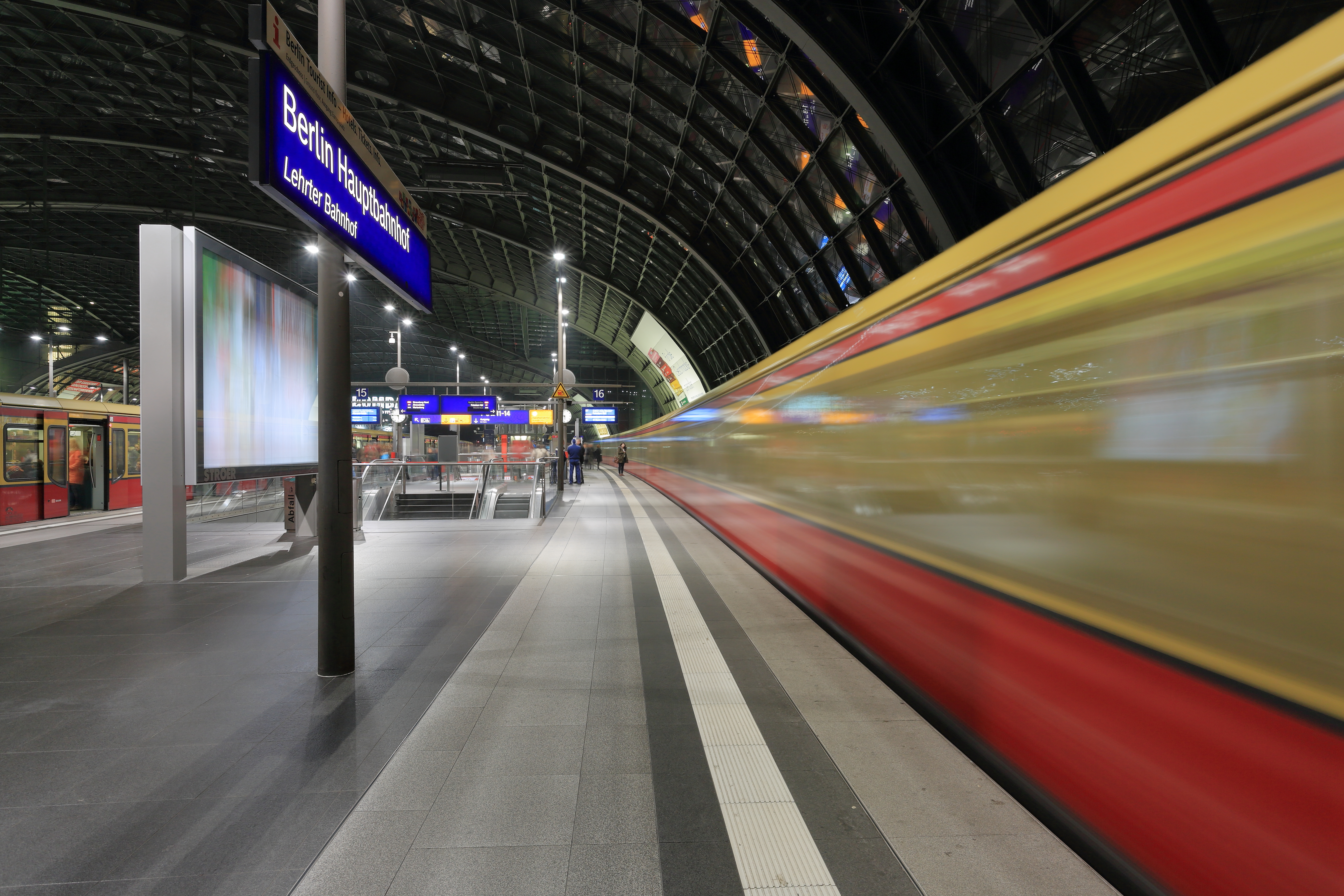 S-Bahn at Hauptbahnhof Berlin